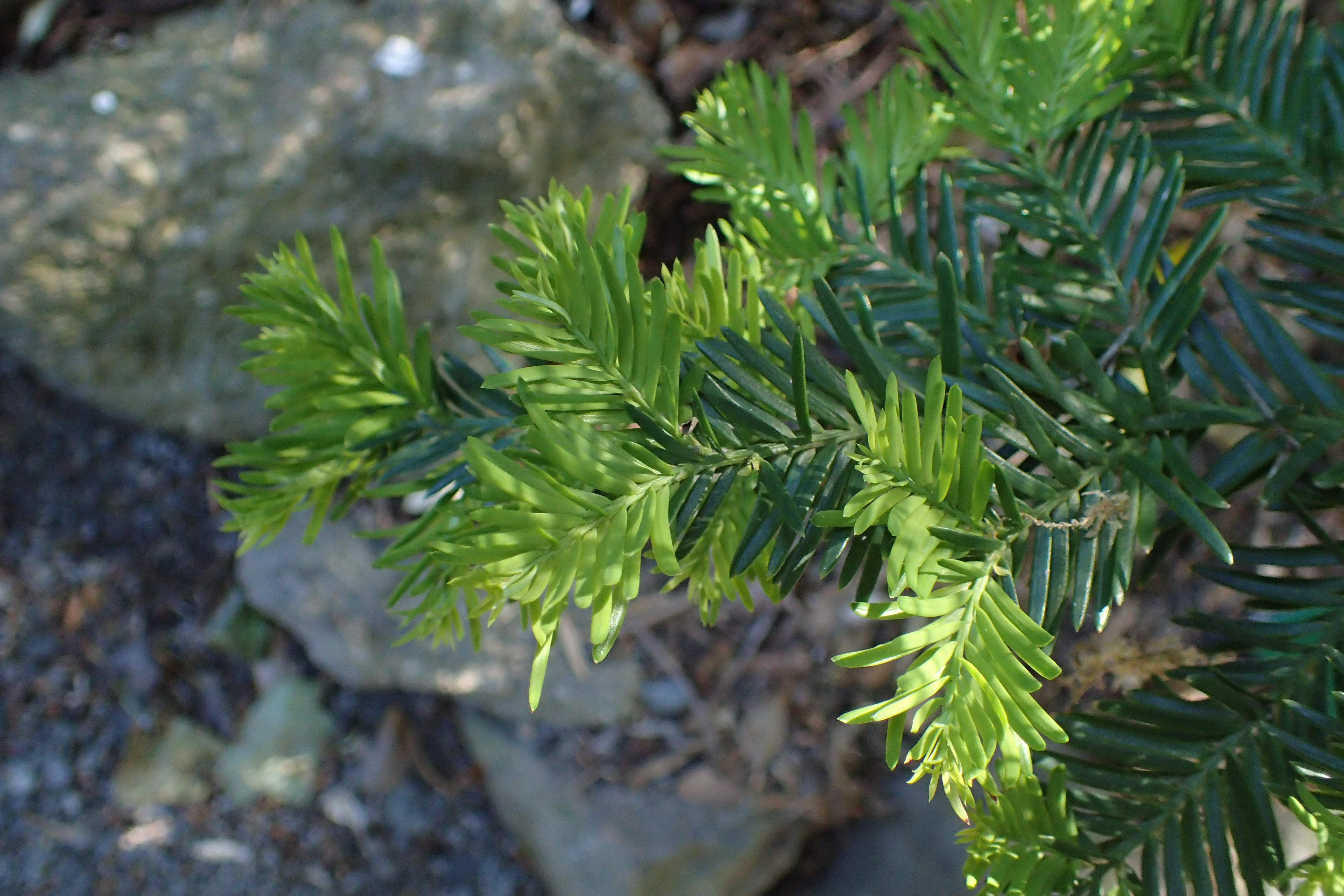 Prumnopitys andina in Christchurch Botanic Gardens